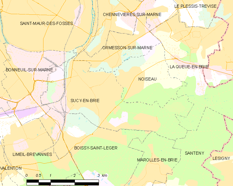 Map of French municipality Sucy-en-Brie